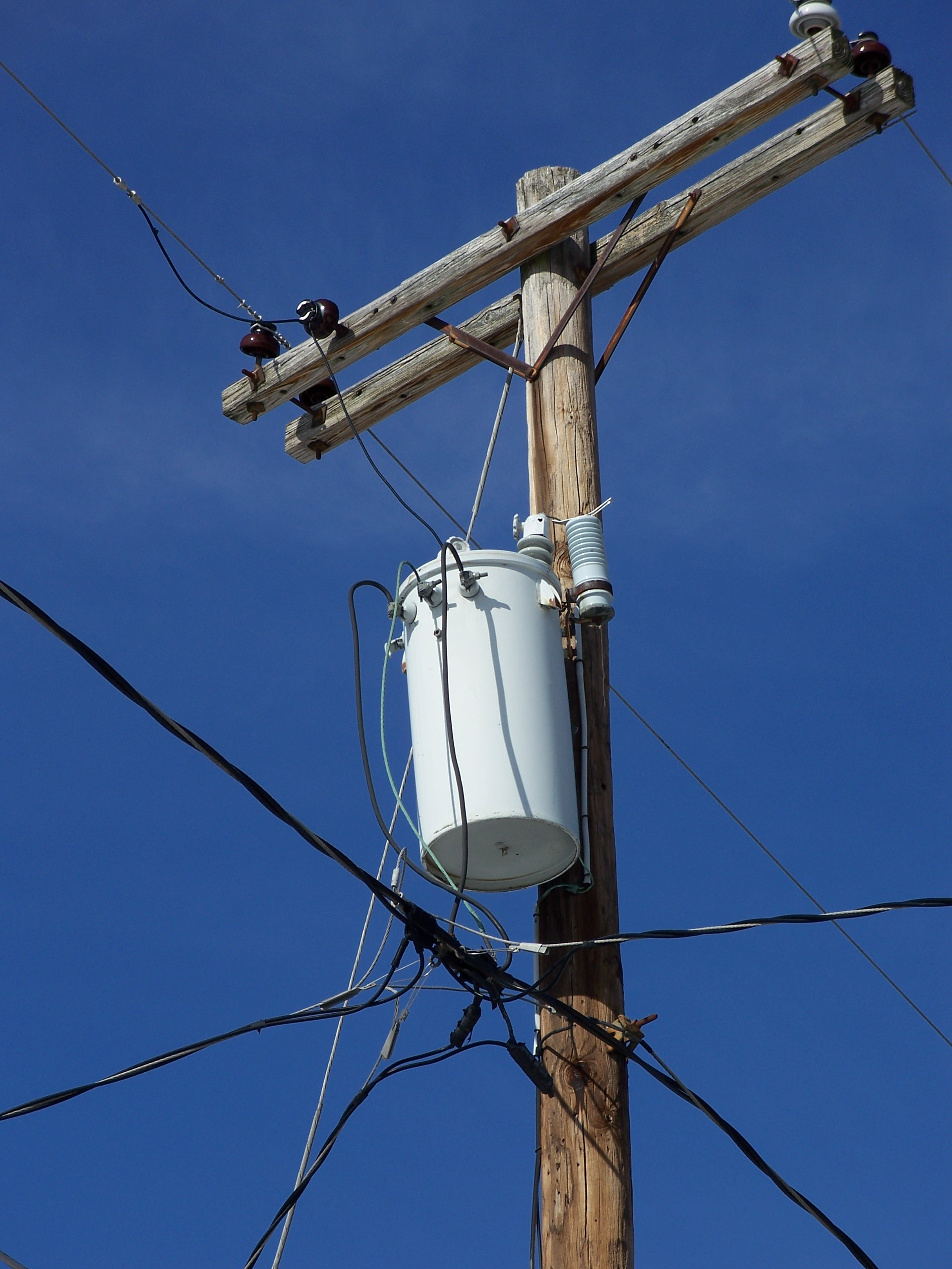 Typical single-phase US residential power distribution transformer mounted on a utility pole.